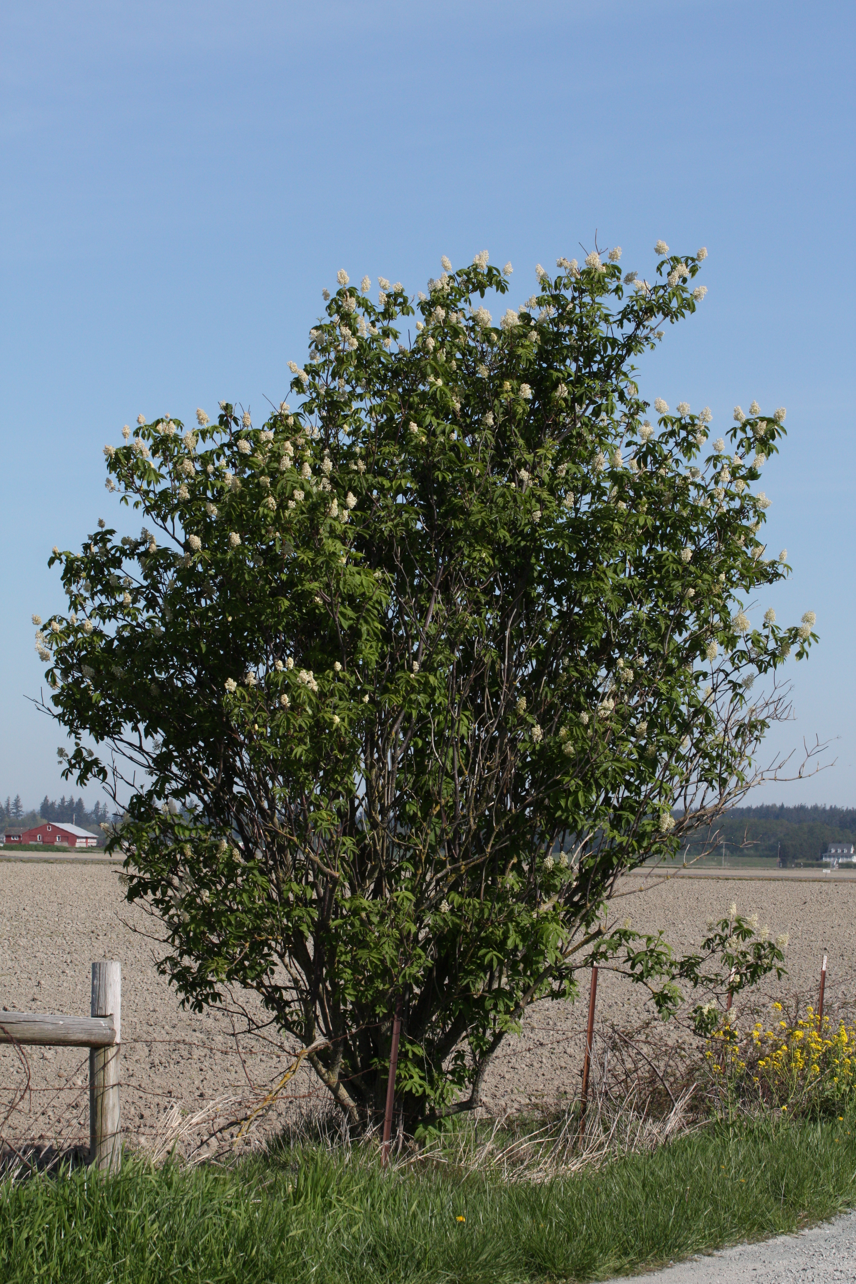 Red Elderberry, Coast Red Elderberry Full Name with Authors: Sambucus racemosa L. ssp. pubens (Michx.) House var. arborescens (Torr. & Gray) Gray